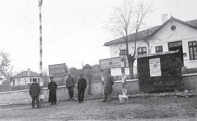 Jelyazkovetz mayor's office in 1936. Village school on the left